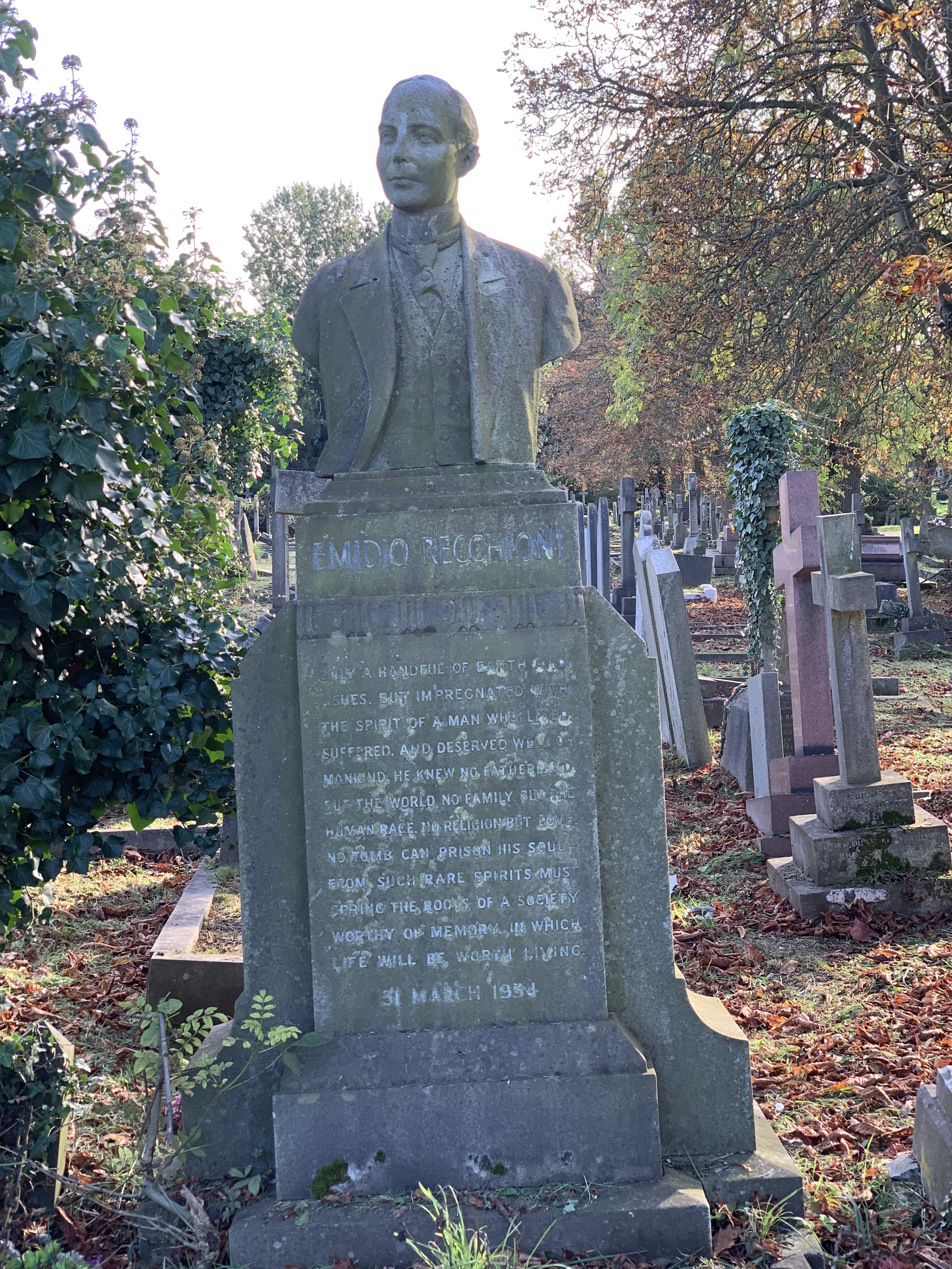 A photo of the gravestone of Emidio Recchioni in Kensal Green Cemetery, London. Recchioni was involved in an attempted assassination of Italian dictator Benito Mussolini.